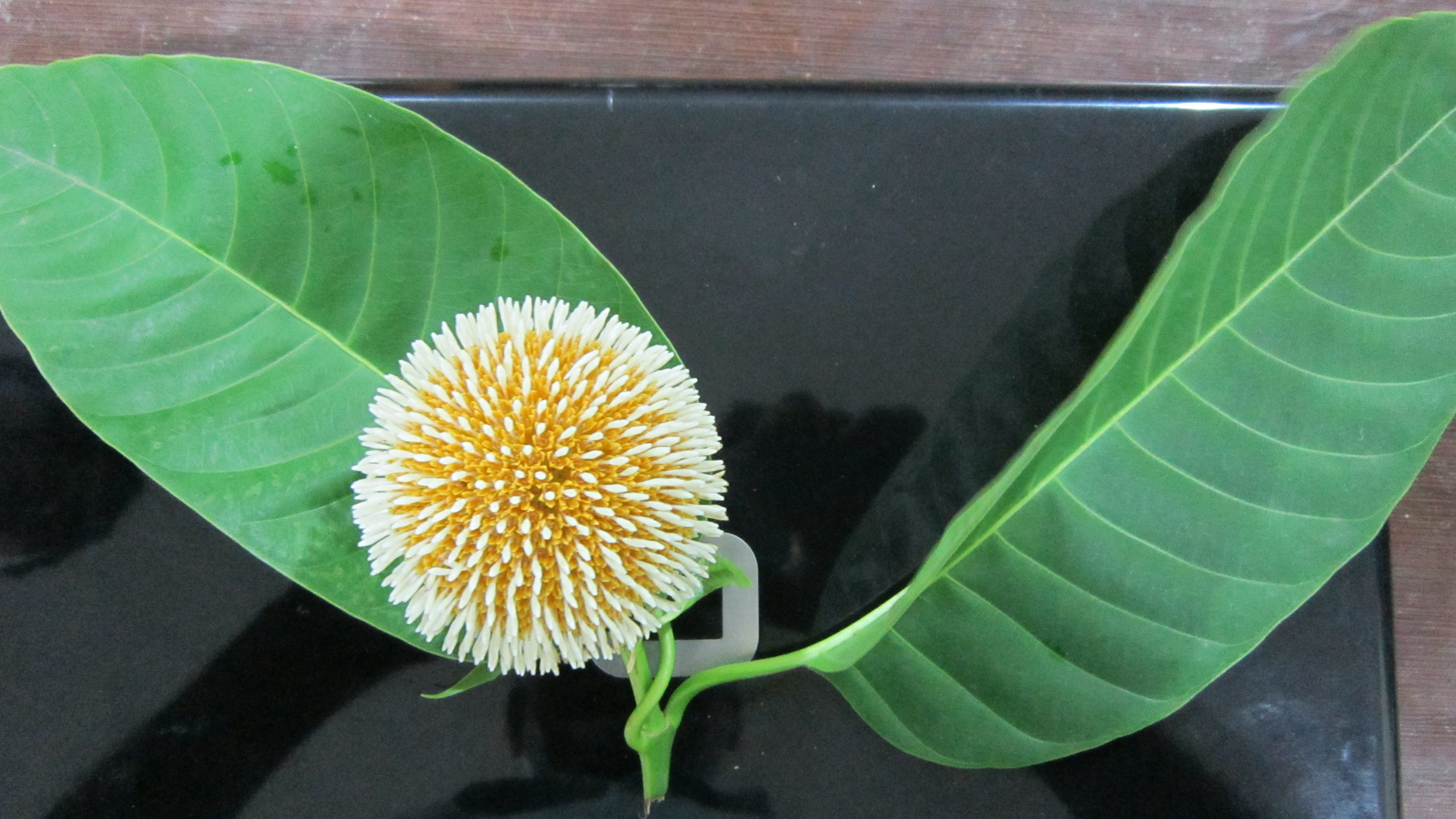 kadaMbam flower-India -used to worship goddess lalitha Devi